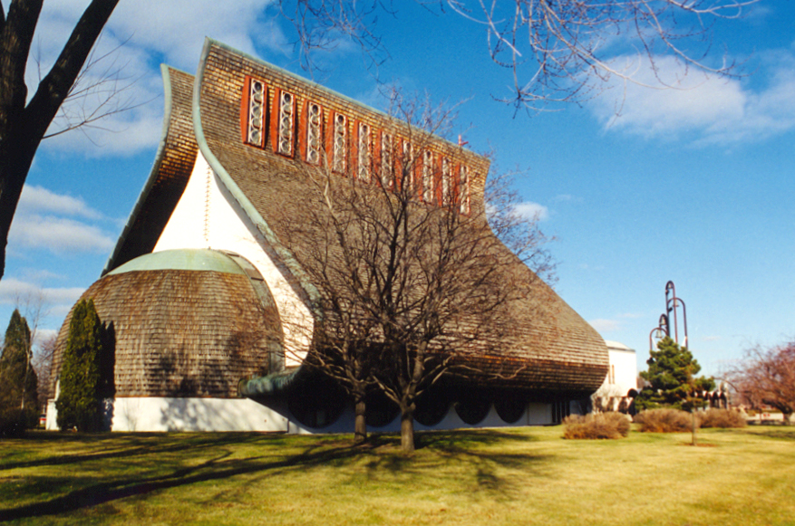 Notre-Dame-des-Champs, Repentigny, Quebec, Canada. The church was build in 1963. It was designed by Canadian architect: Roger D’Astous.